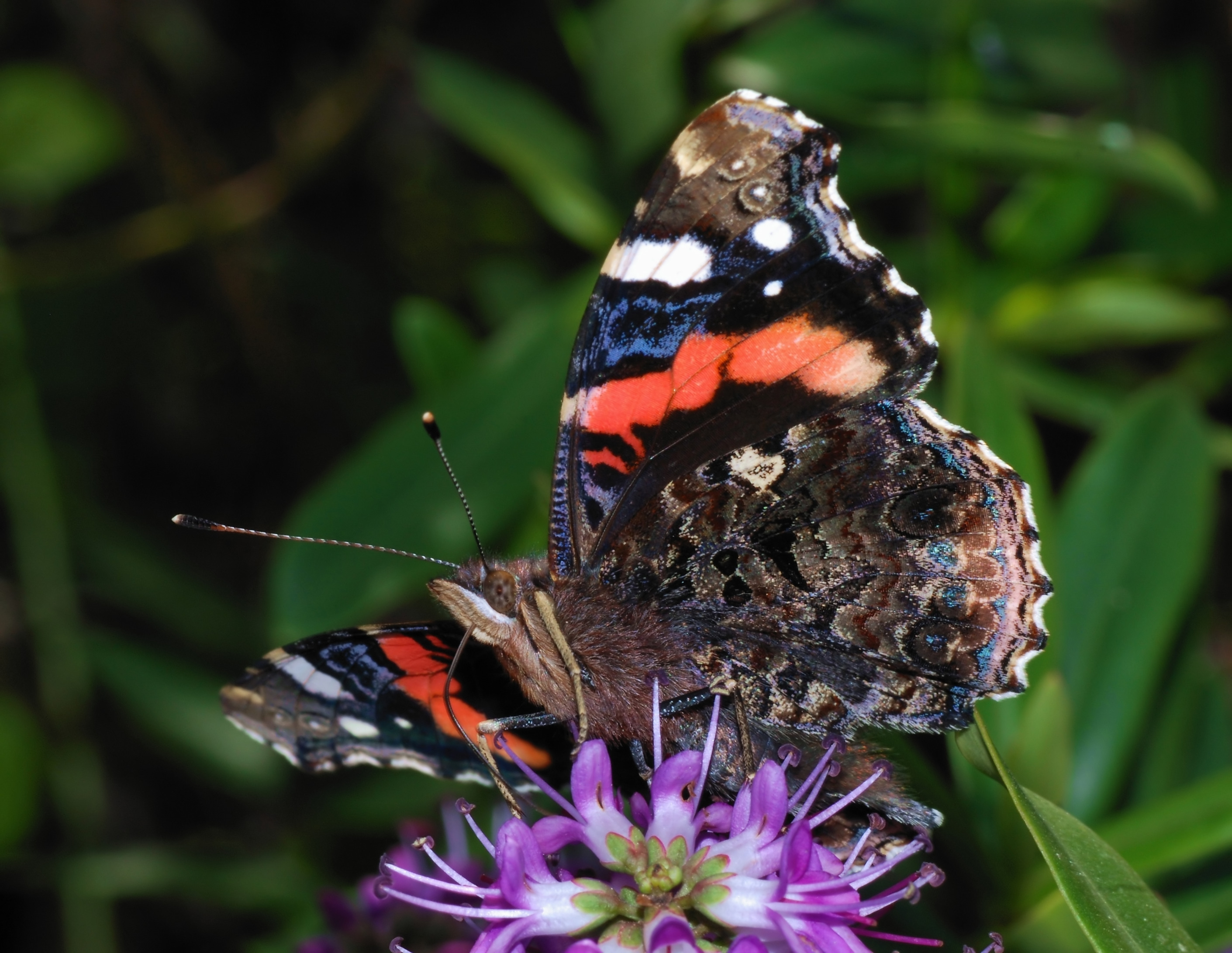 A Red Admiralty butterfly (Vanessa atalanta) Camera: Nikon D80 with Tokina AF 100 macro Exposure: manual exposure - F/25, 1/80, ISO 200